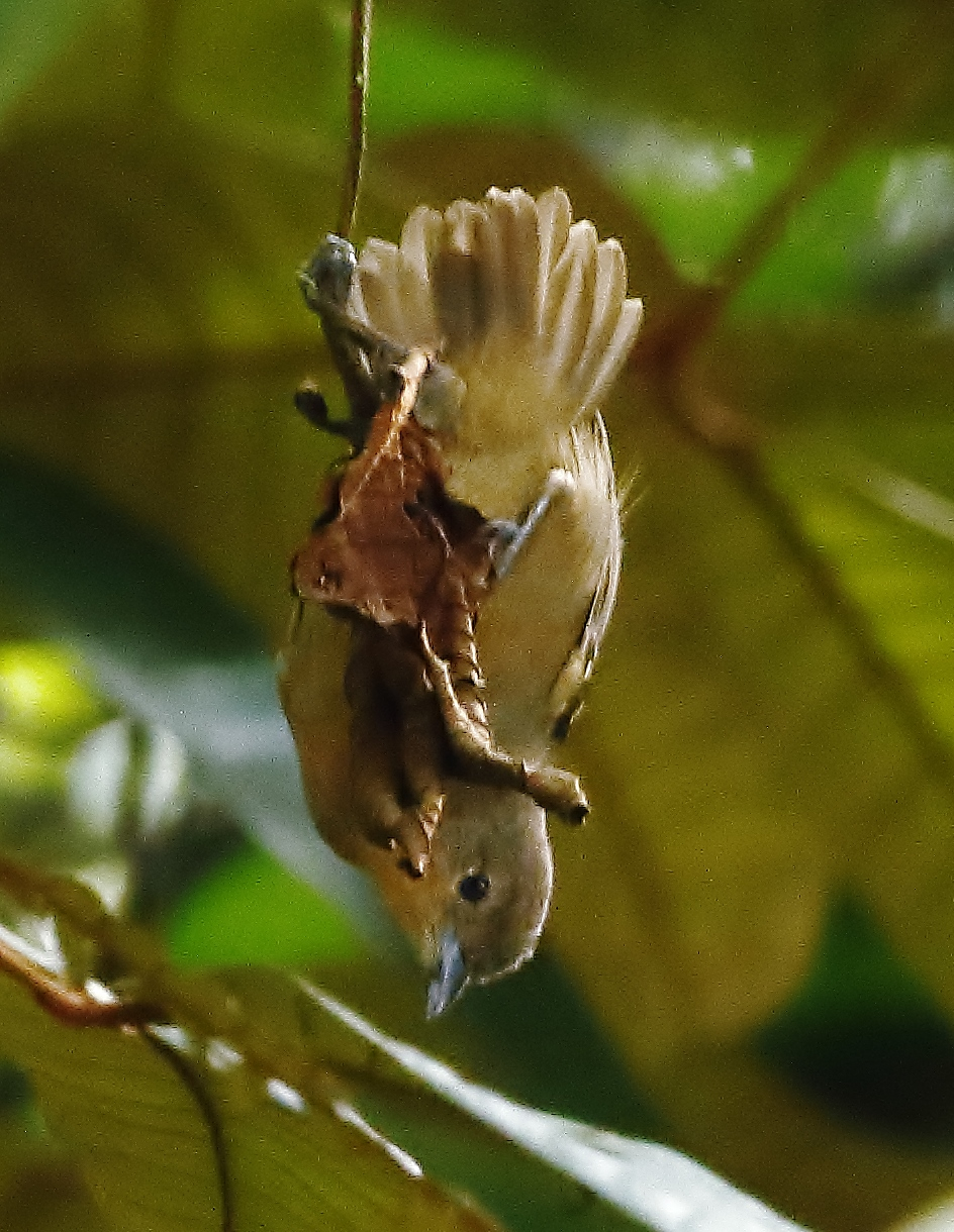 Ornate antwren (female) at Carajás National Forest - Pará - Brazil